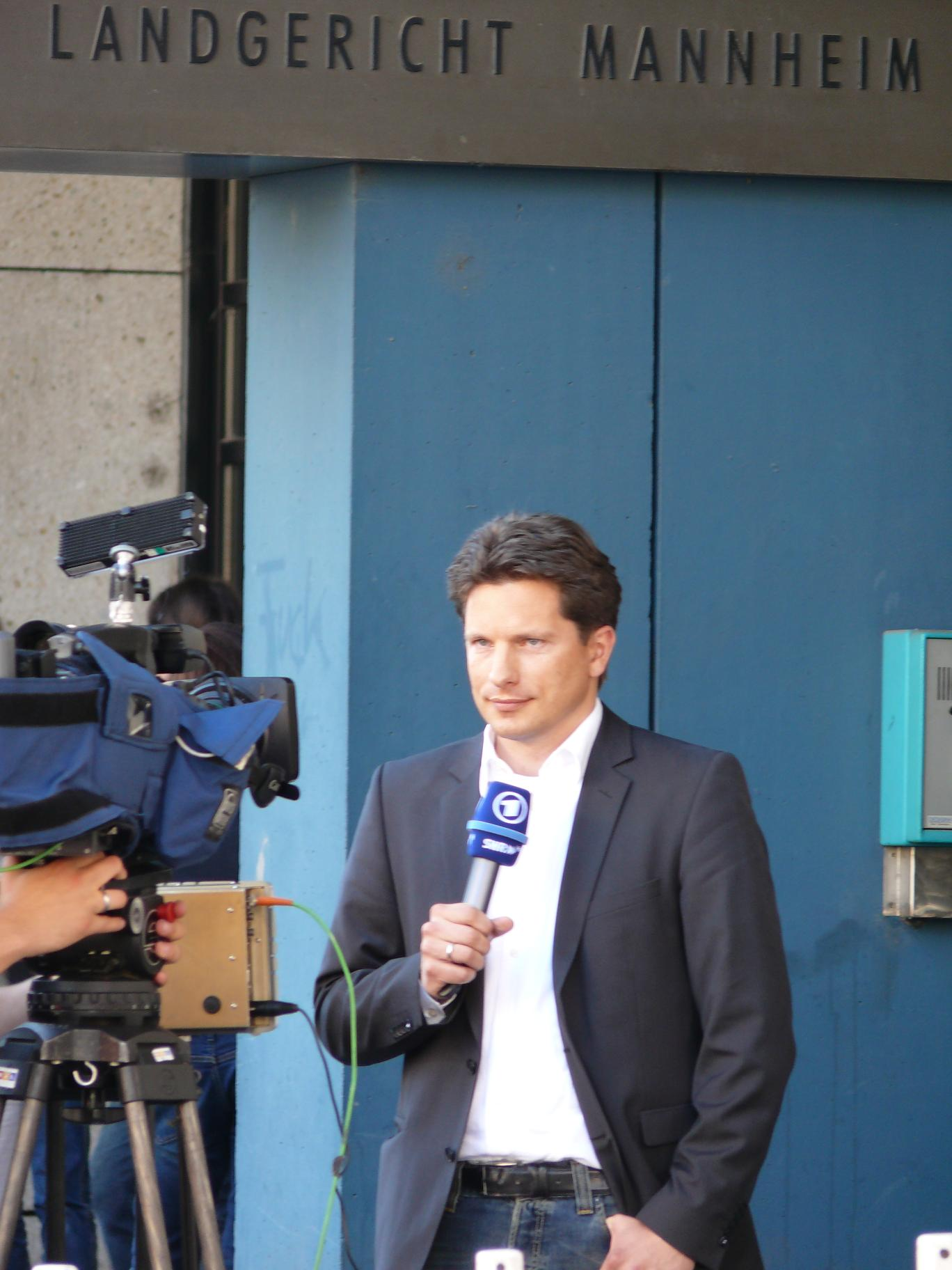 german SWR-reporter Frank Bräutigam at Landgericht Mannheim